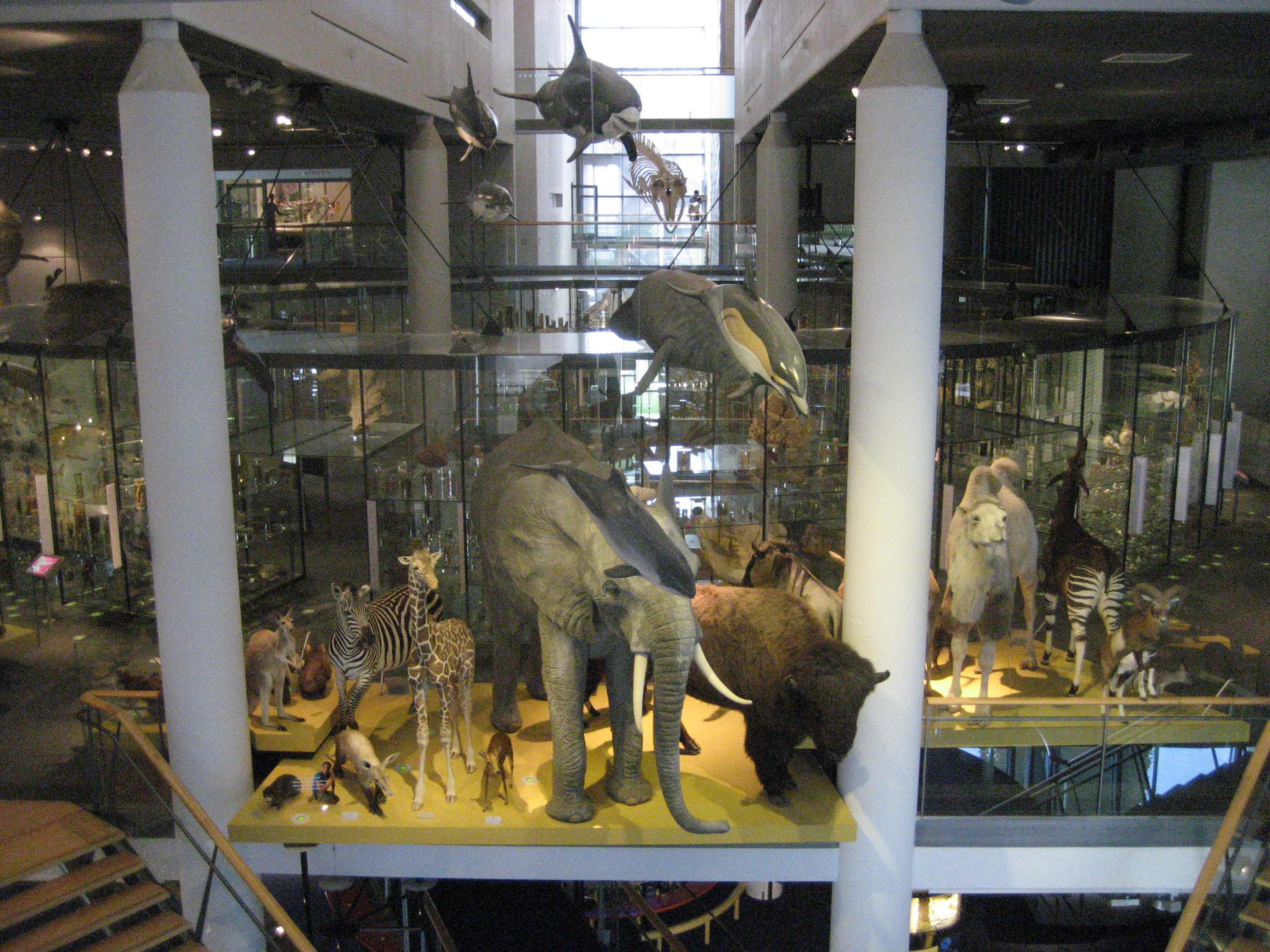 Overview Naturalis Museum, Leiden (NL)